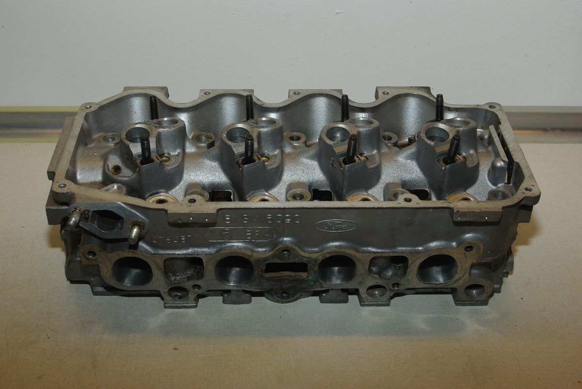 1.6 Ford CVH cylinder head, inlet side